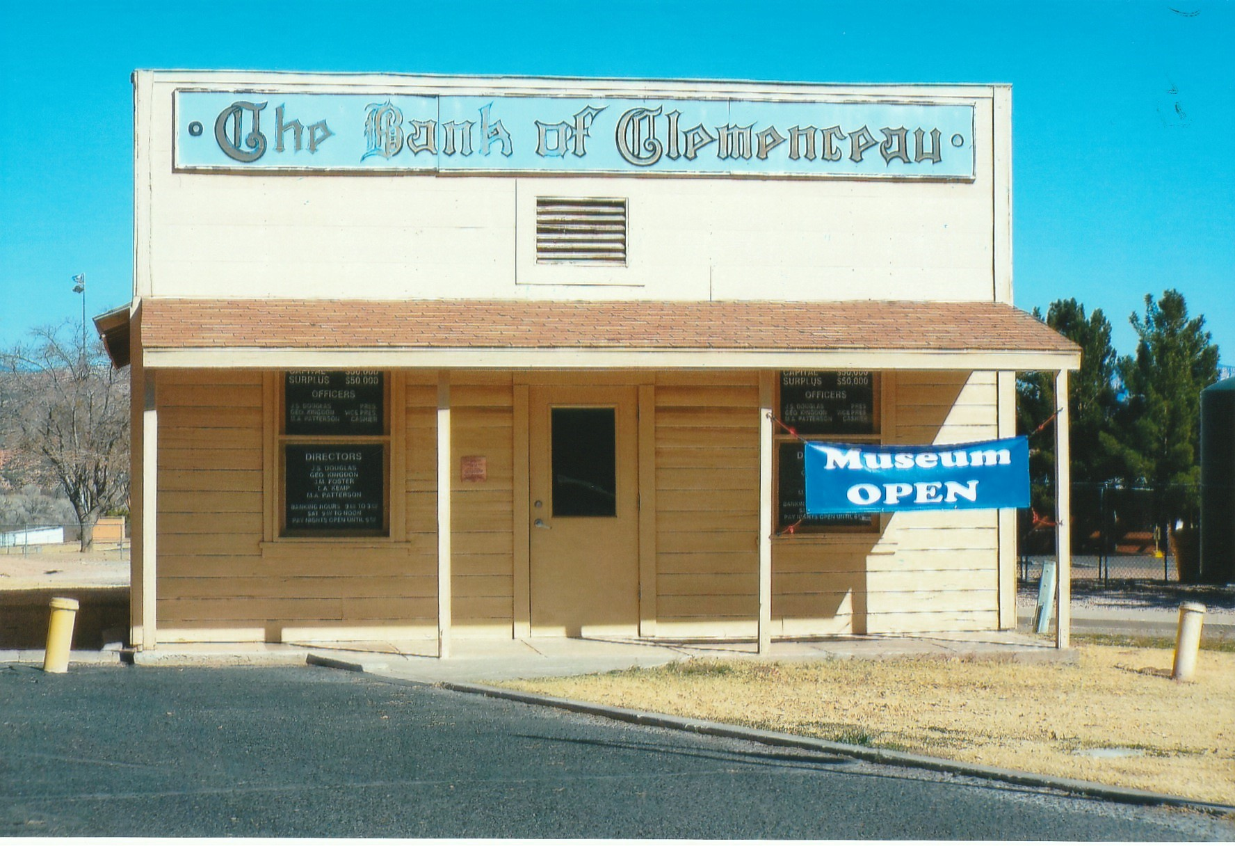 The Bank of Clemenceau building was built in 1918 and is located at 1 N. Willard Street.